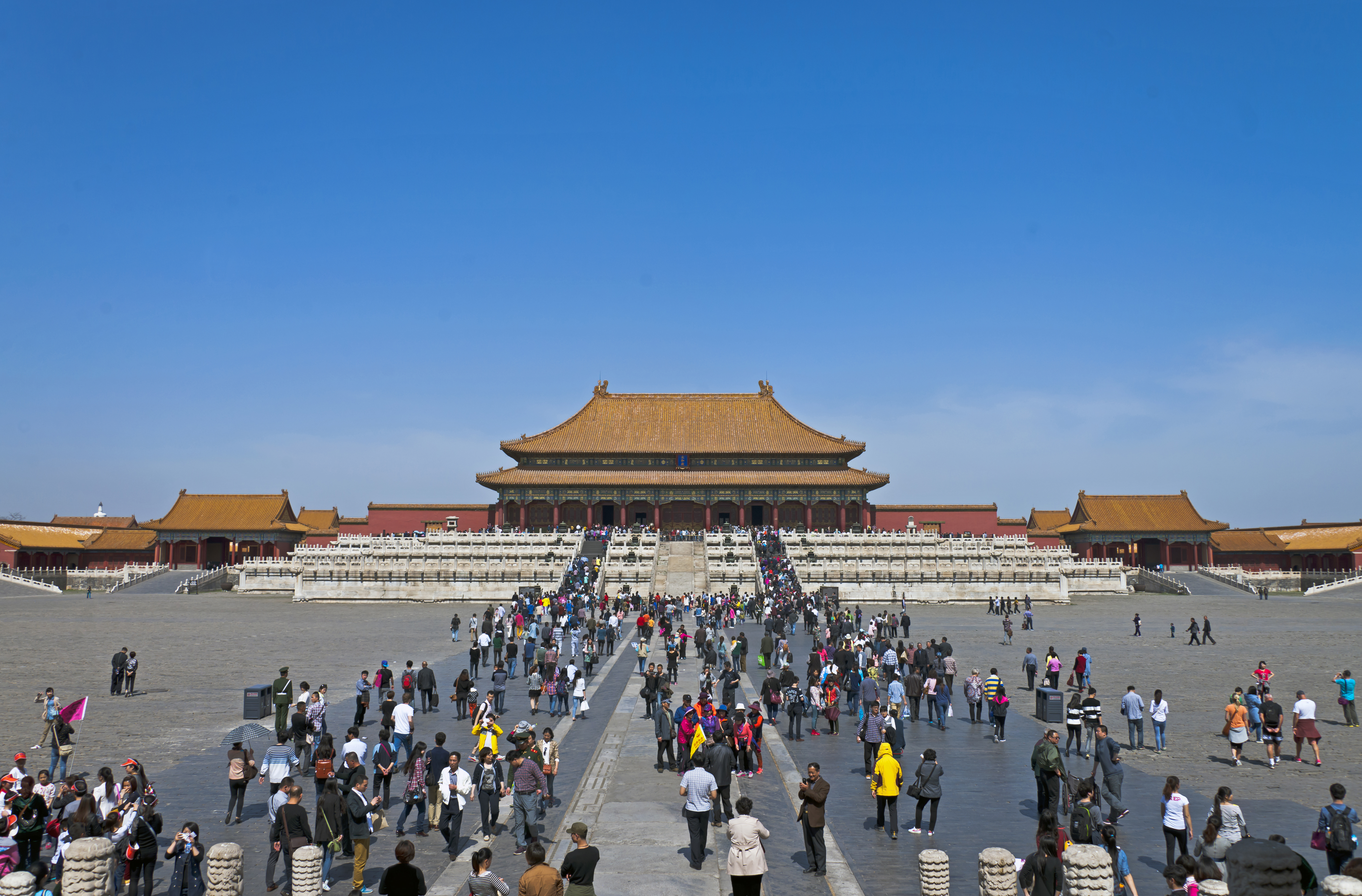 View of Hall of Supreme Harmony at the Forbidden City from Gate of Supreme Harmony on a busy Sunday.